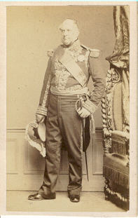 Admiral Ferdinand Alphonse Hamelin (1796-1864)